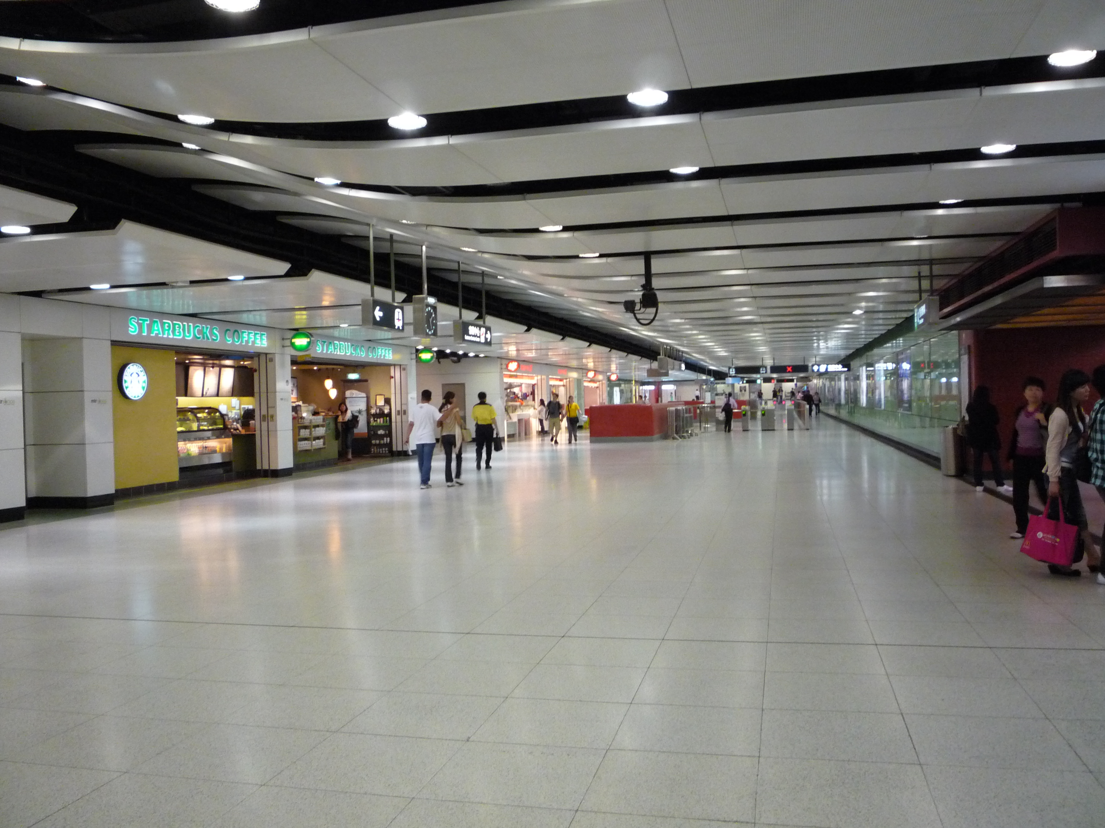 MTR Central Station Chater Road Concourse